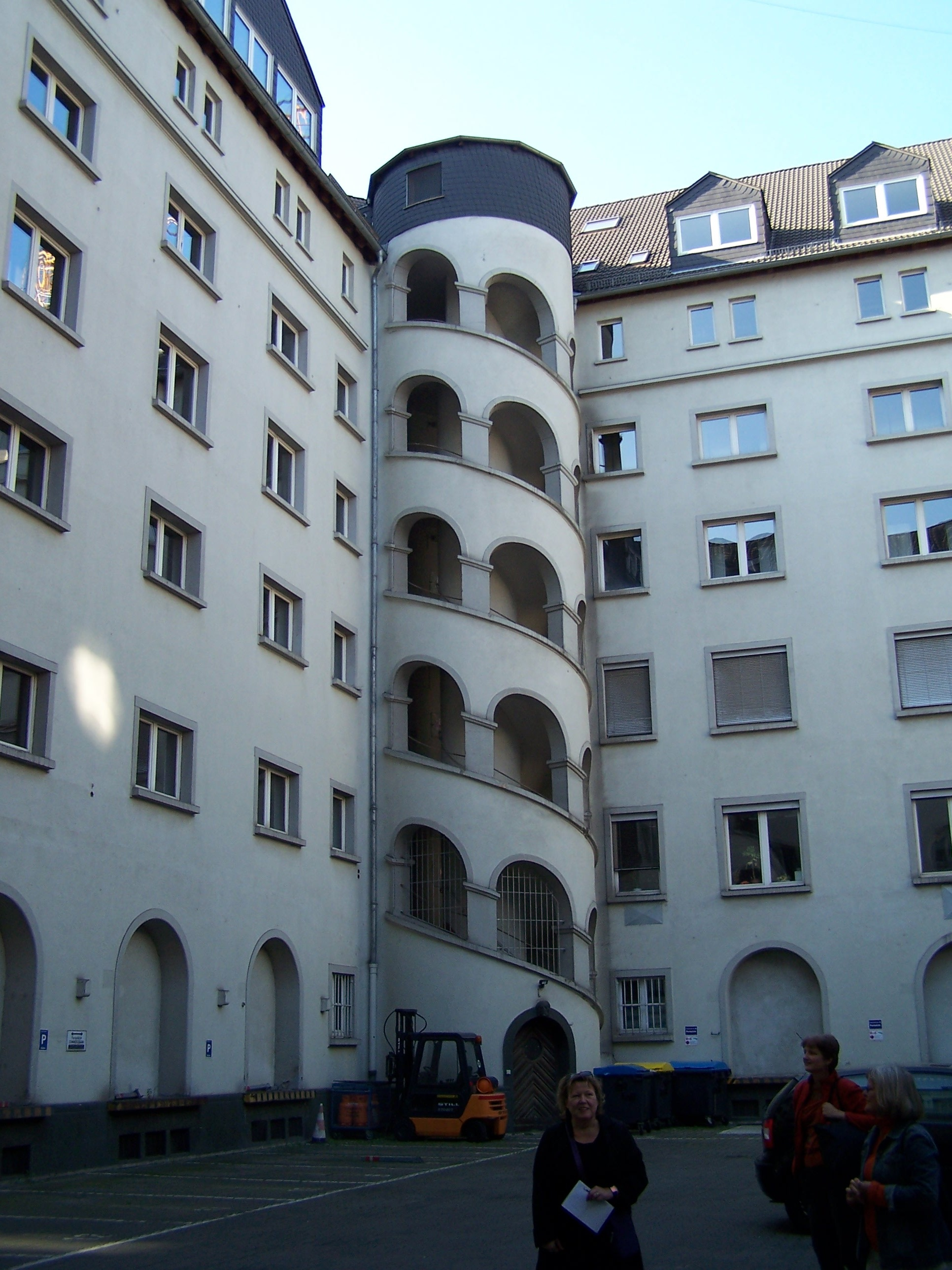 Northern stair tower of the headquarters of the former Latscha grocer company in Frankfurt-Ostend, sínce 1978 Loulakis Getränke